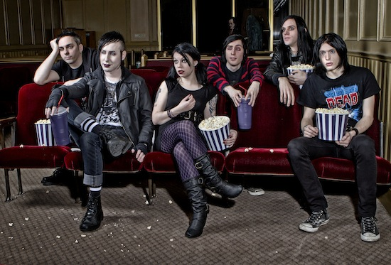 By: Jonathan Barkan. Photoshoot for The Birthday Massacre Week Of Top 10s